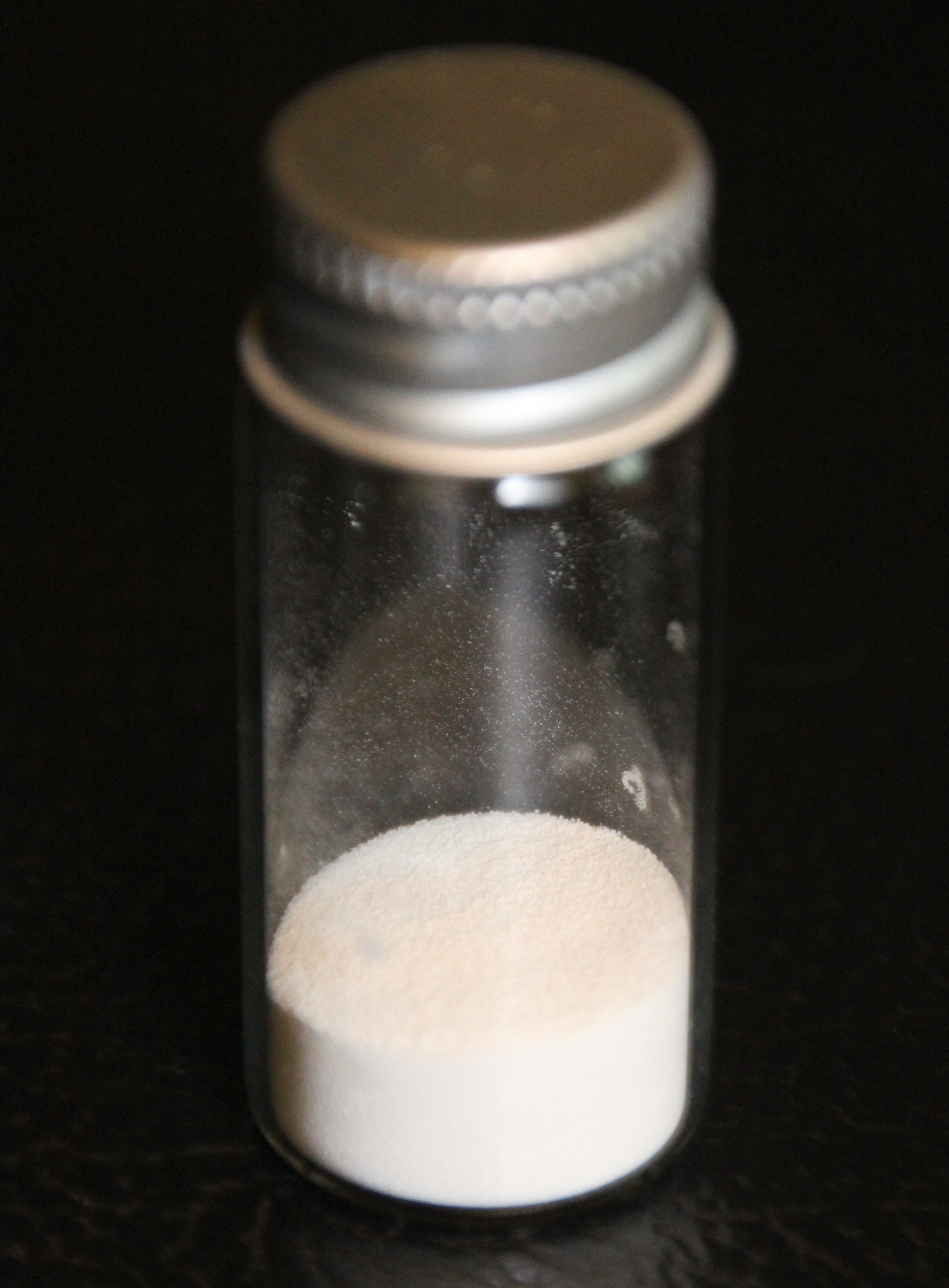 A pure, raw form of polyvinyl chloride, without any plasticizer